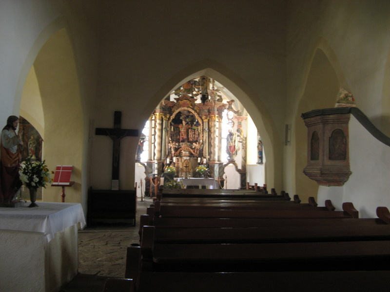 Uršlja Gora church interior